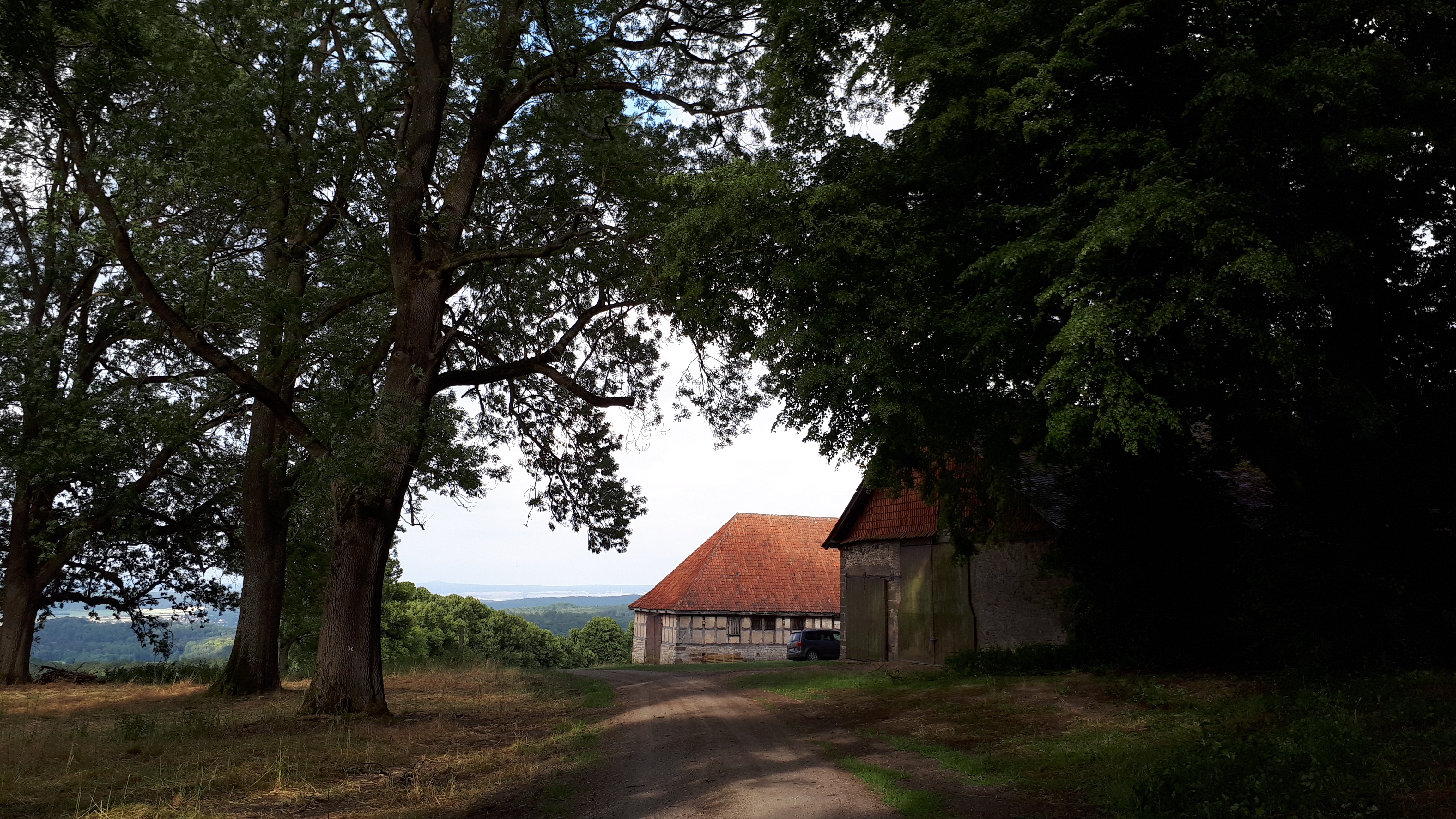 Stable and barn beneath the castle ruin of Malsburg